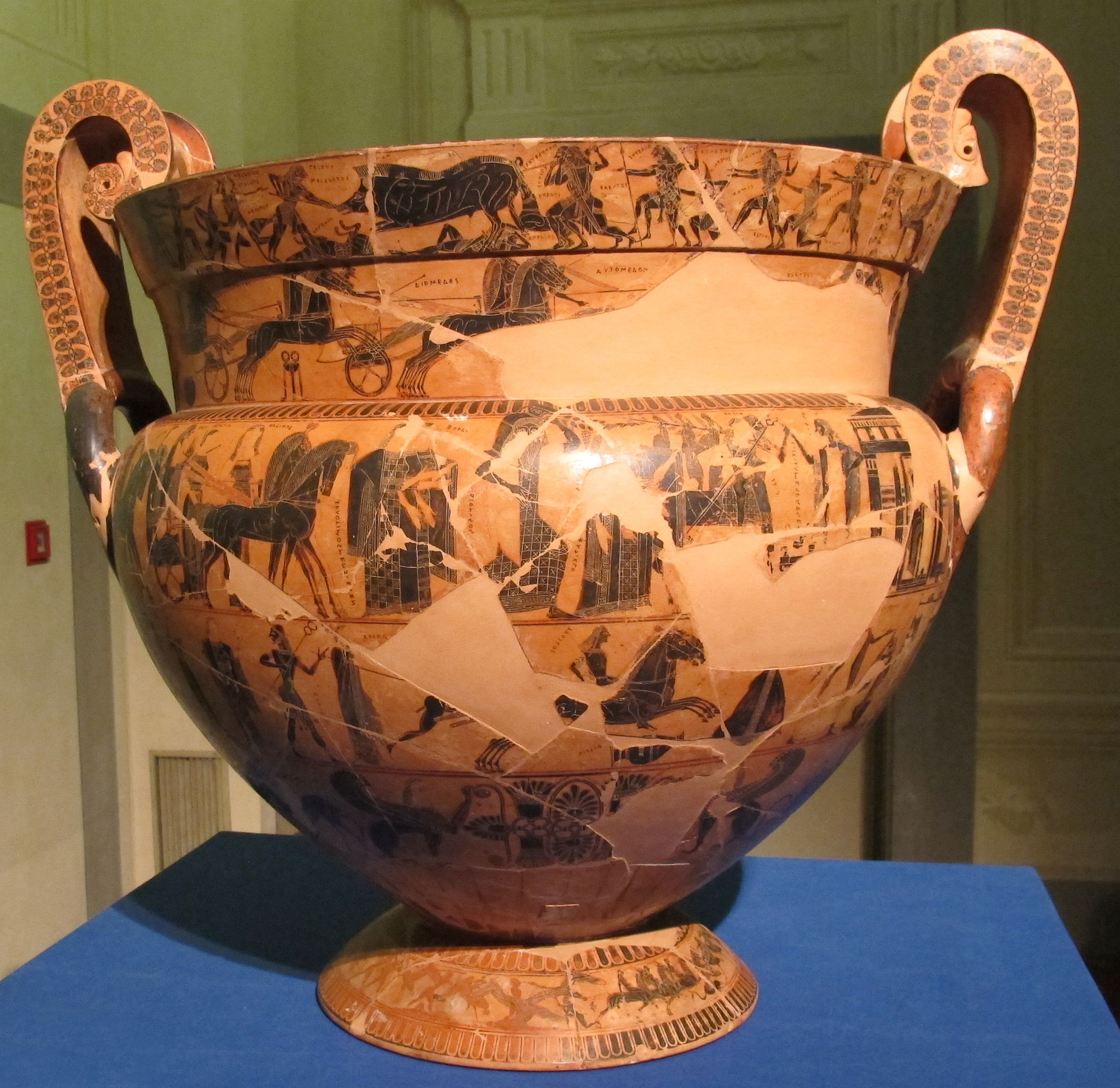 François vase